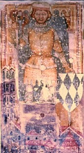 Domitian on a fresco of 1429 in church of the one-time Benedictine Millstatt Abbey district Spittal an der Drau in Carinthia / Austria / EU.